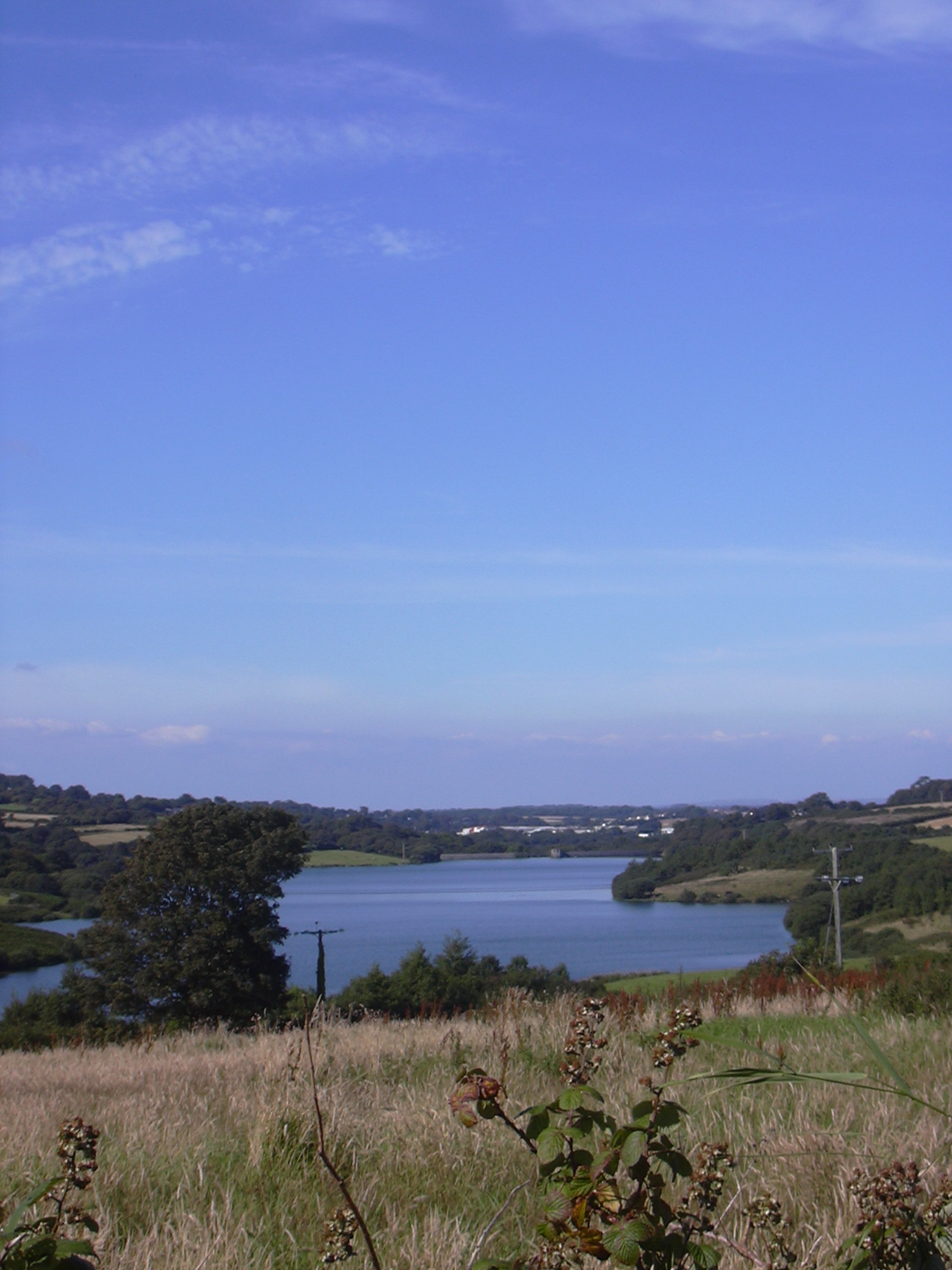 Argal Reservoir, Treverva in Mabe